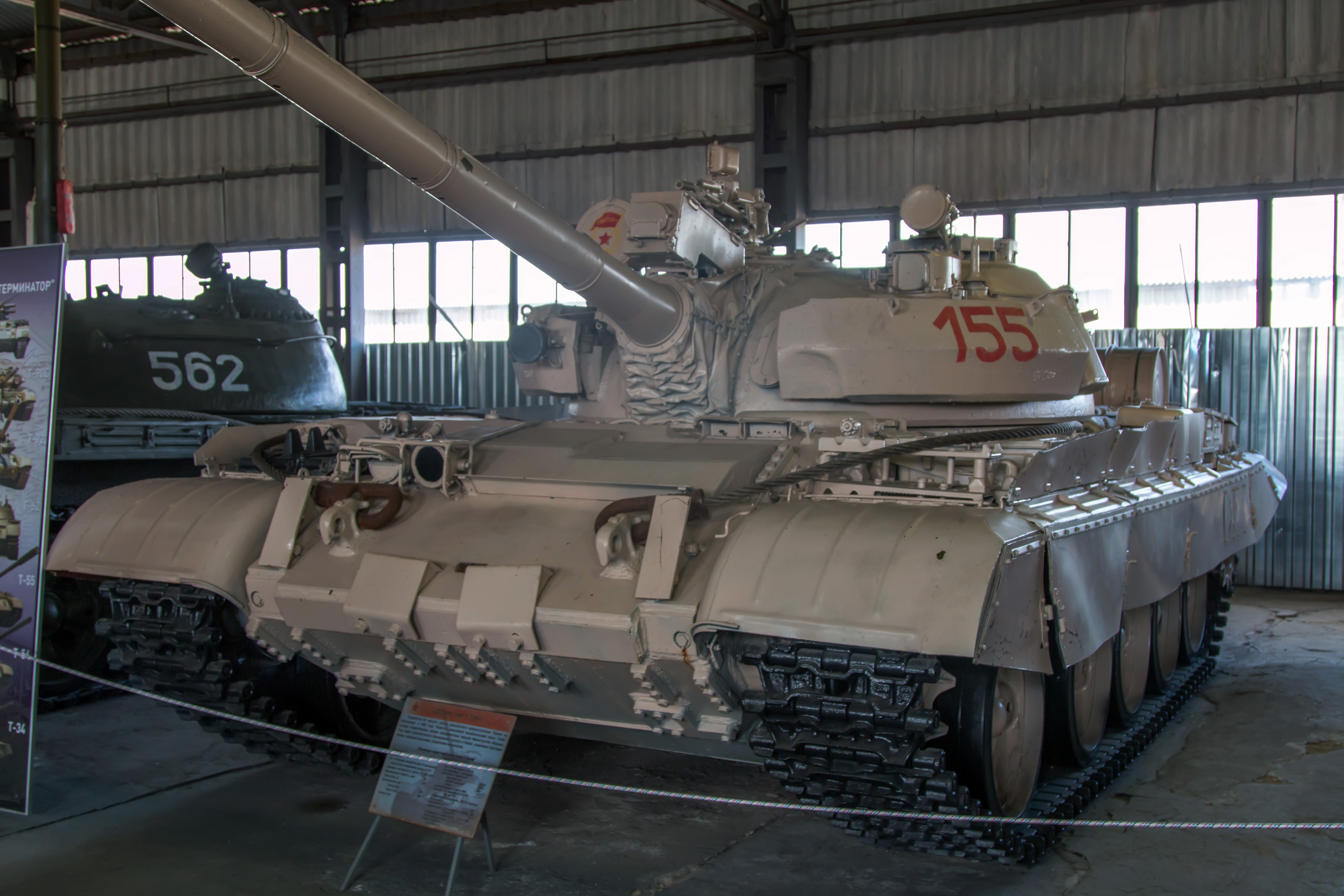 T-55AM in the Kubinka Museum.